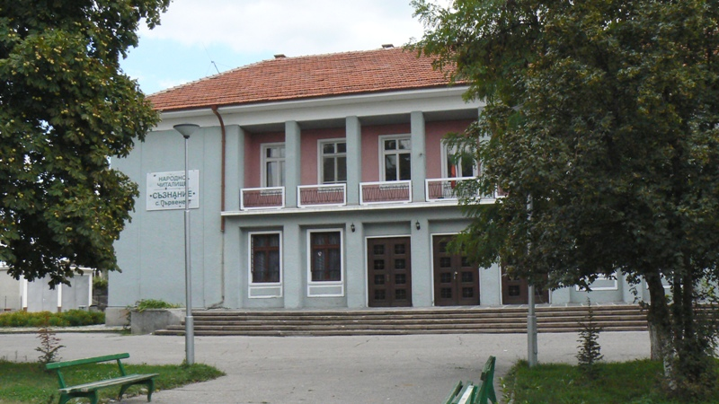 The community centre with library in village Ognyanovo (Plovdiv region)